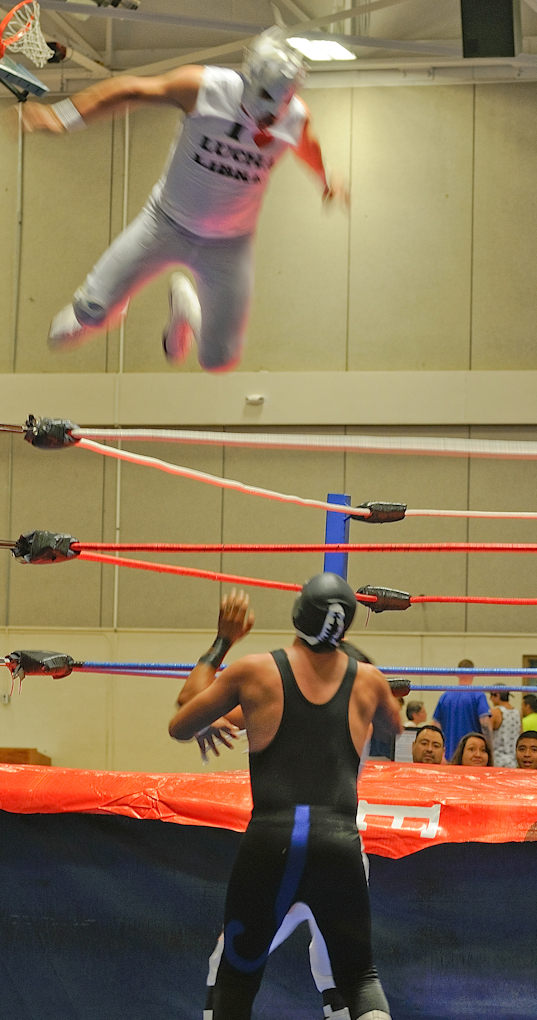 During a free Lucha Libre match one wrestler leaps from the top ropes of the ring towards two other wrestlers on the ground outside the ring. The Border Impact Group, in partnership with Fort Bliss Morale, Welfare and Recreation, put on a show of Mexican wrestling called Lucha Libre, July 18. (U.S. Army photo by Sgt. James Avery)